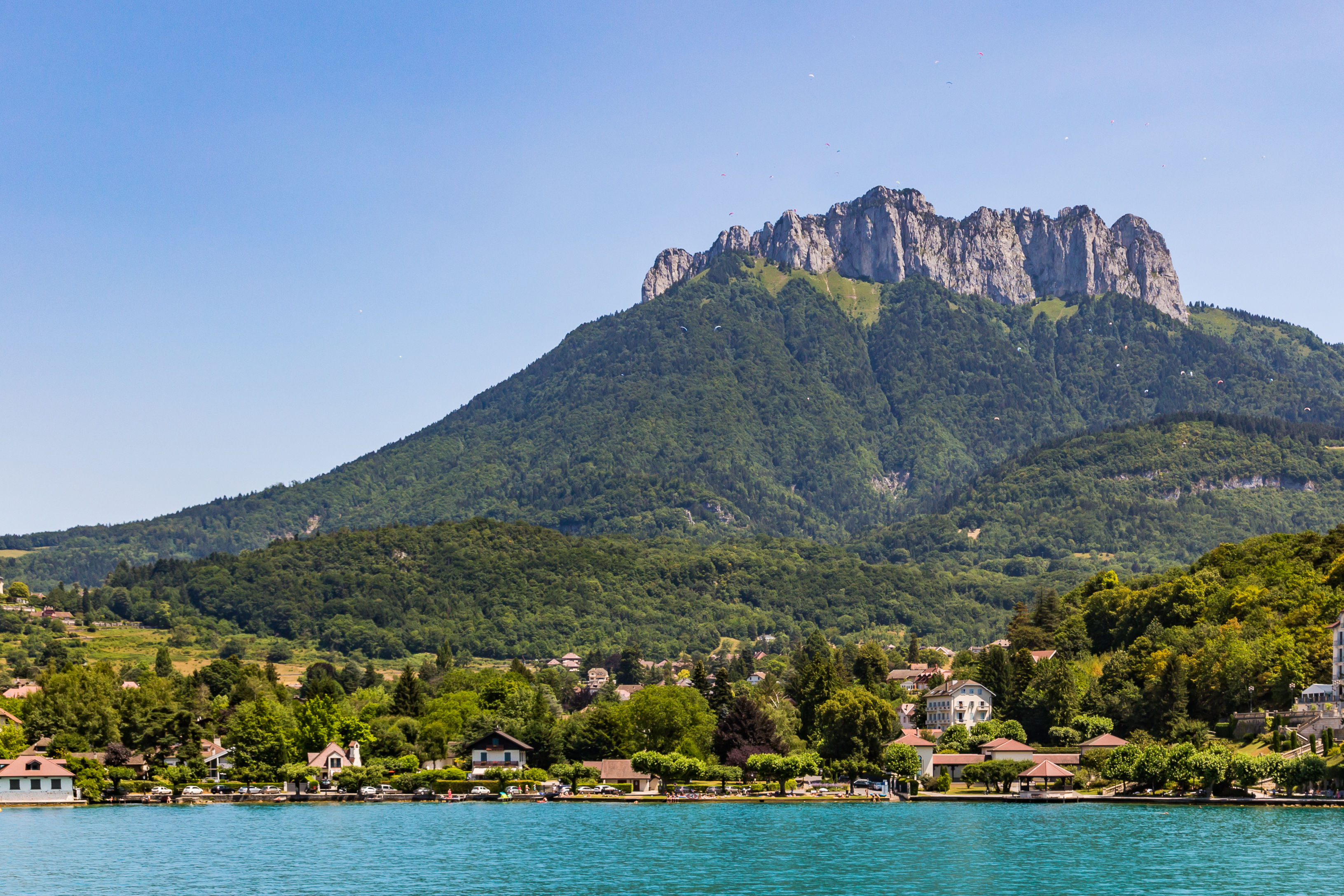 West slope of the dents de Lanfon, since lake Annecy in Talloires, France.